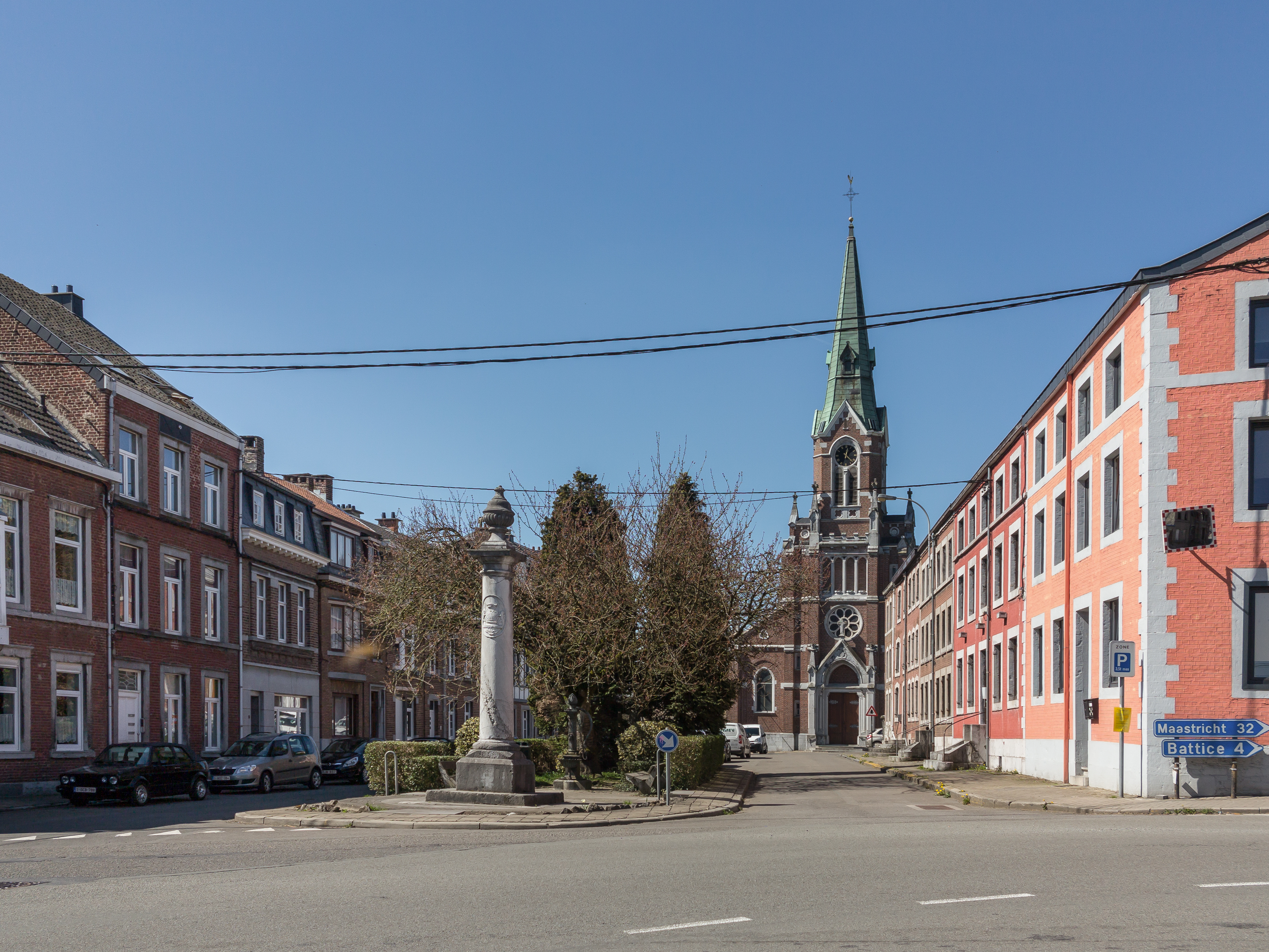 Petit Rechain, church (l'église Saint-Martin) in the street